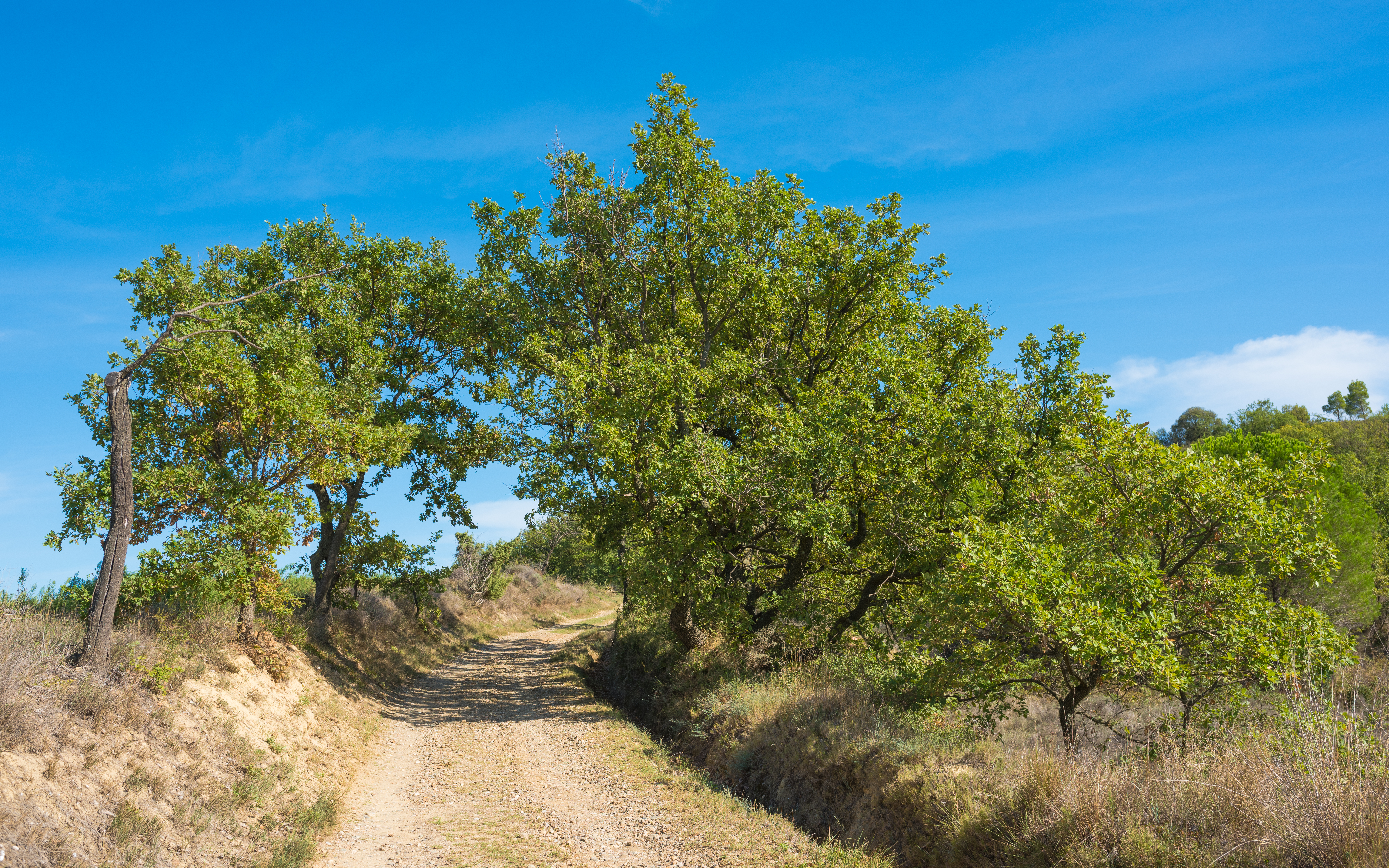 A trail in the commune of Murviel-lès-Béziers, Hérault, France.